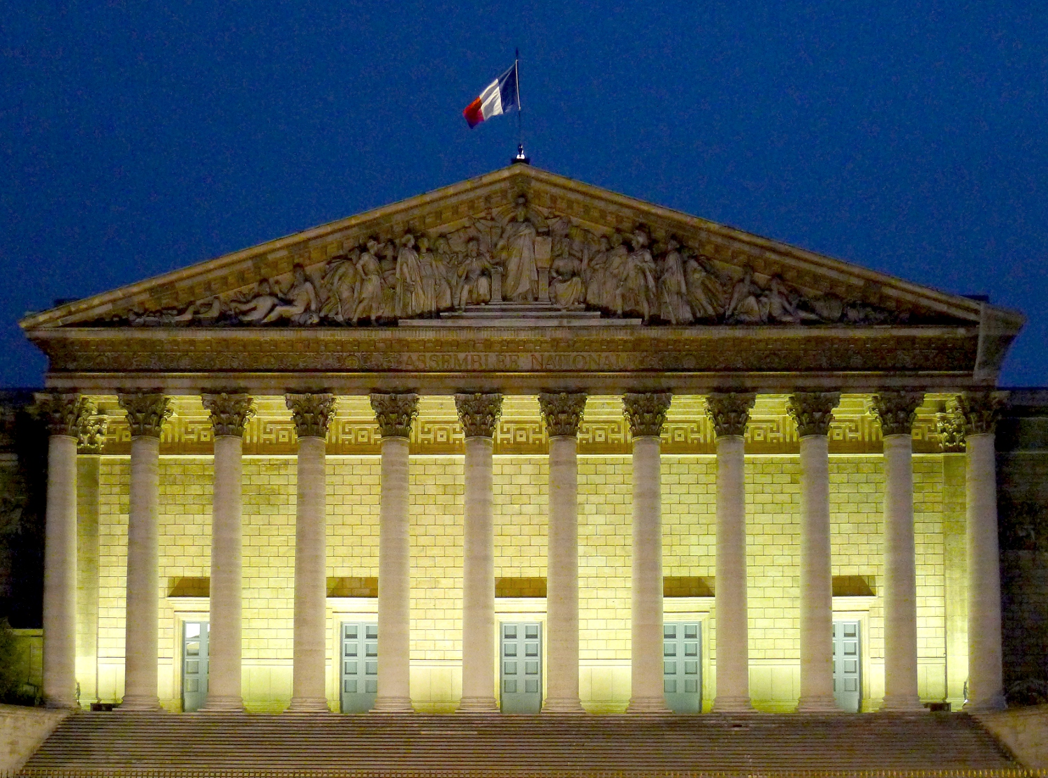 Palais Bourbon - Paris